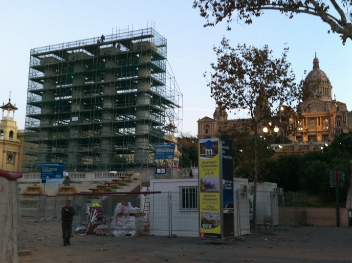 Building works of 4 columns of Barcelona